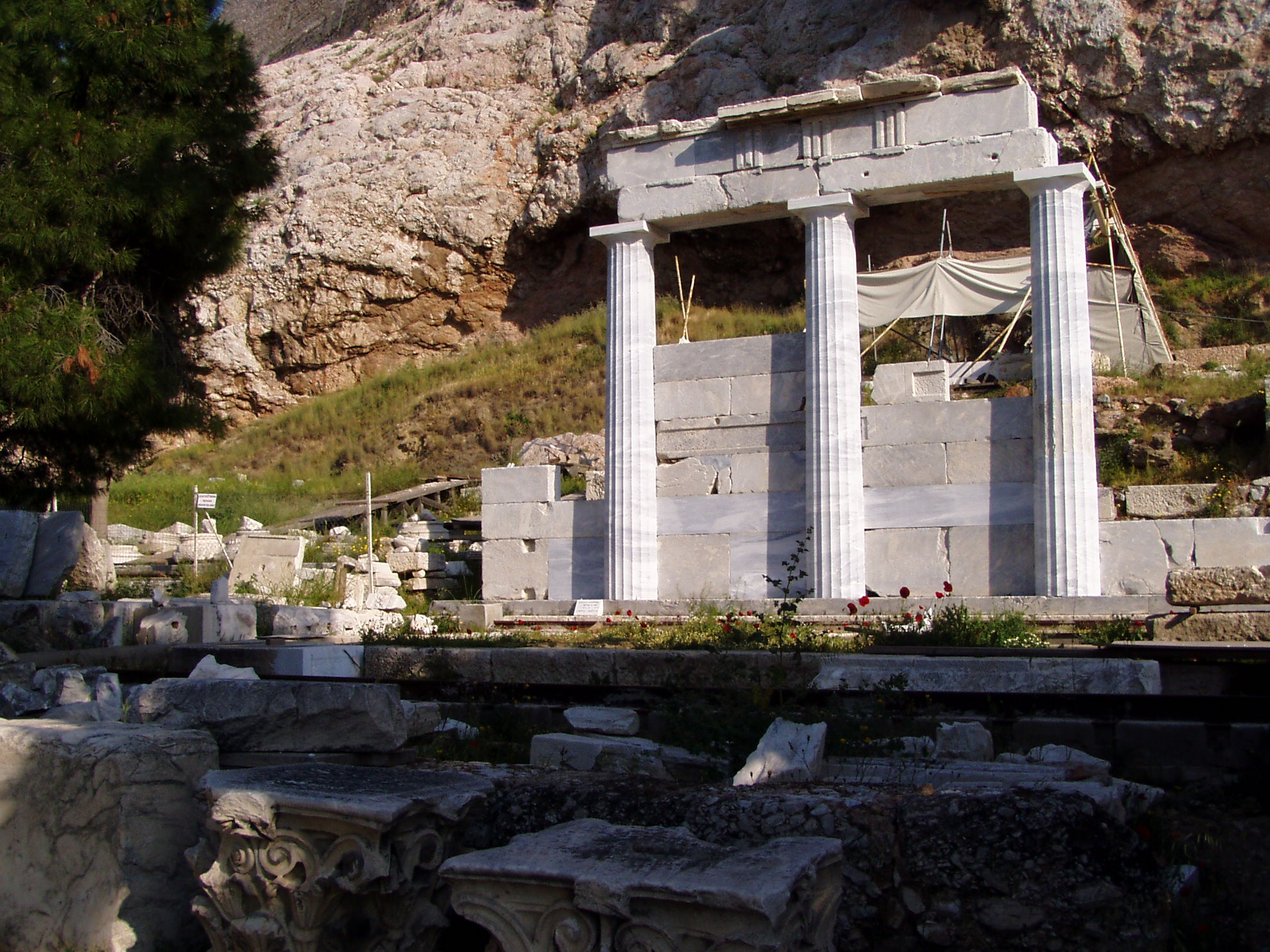 This is the Asclepieion of Athens.